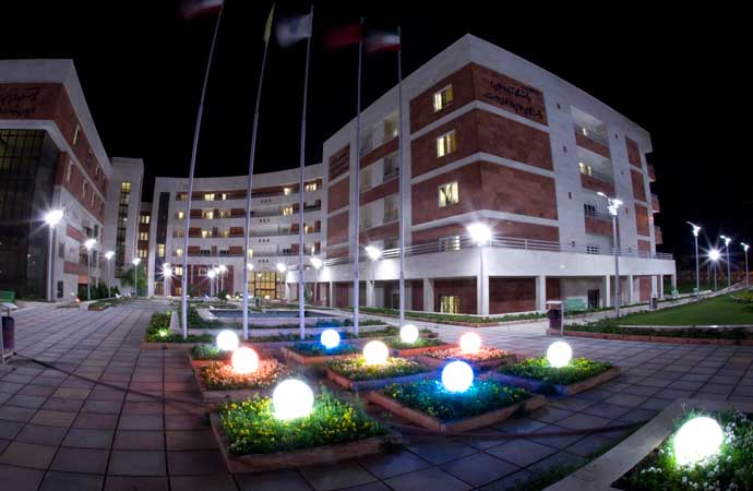 خوابگاه دانشجویی دانشگاه آزاد قزوین یکی از بزرگترین و زیباترین خوابگاه های ایران است.